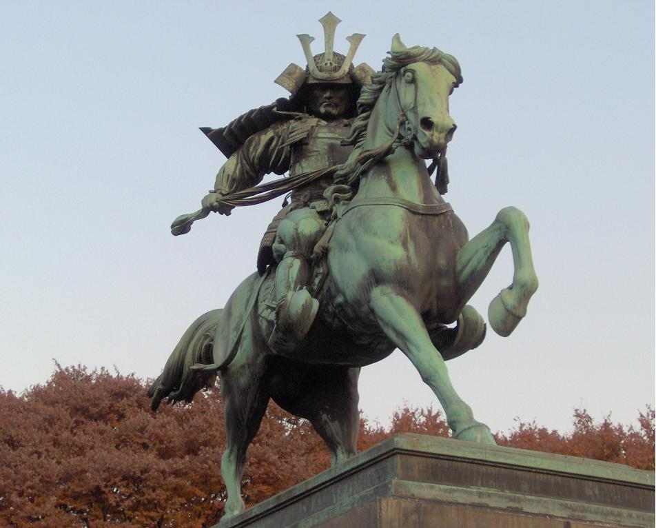 Estatue of Kusunoki Masashige in Tokyo, Japan.